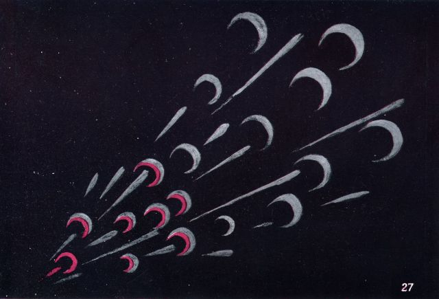 Sudden Fright. From: Annie Besant and C.W. Leadbeater (1925 [1901]) Thought-Forms, London: The Theosophical Publishing House, fig. 27.